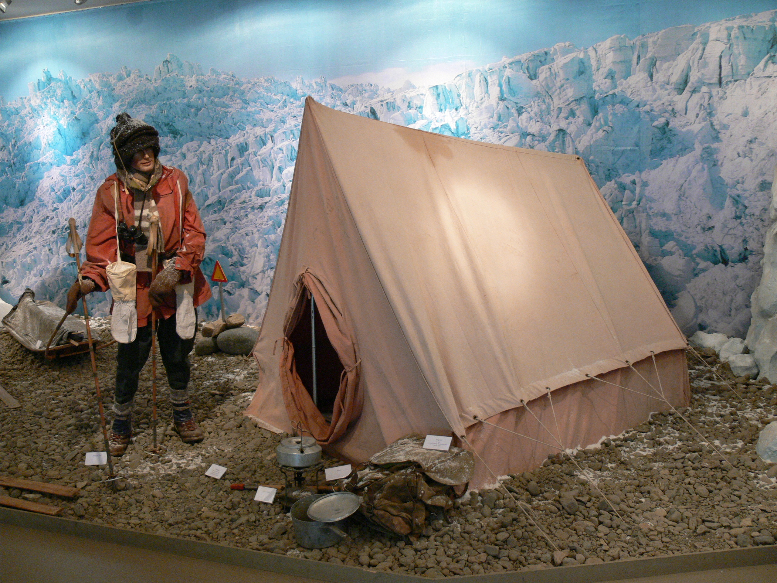 Höfn ( Iceland ) - Glacier Museum. Reconstruction of the Jöklafari Expedition in 1950.